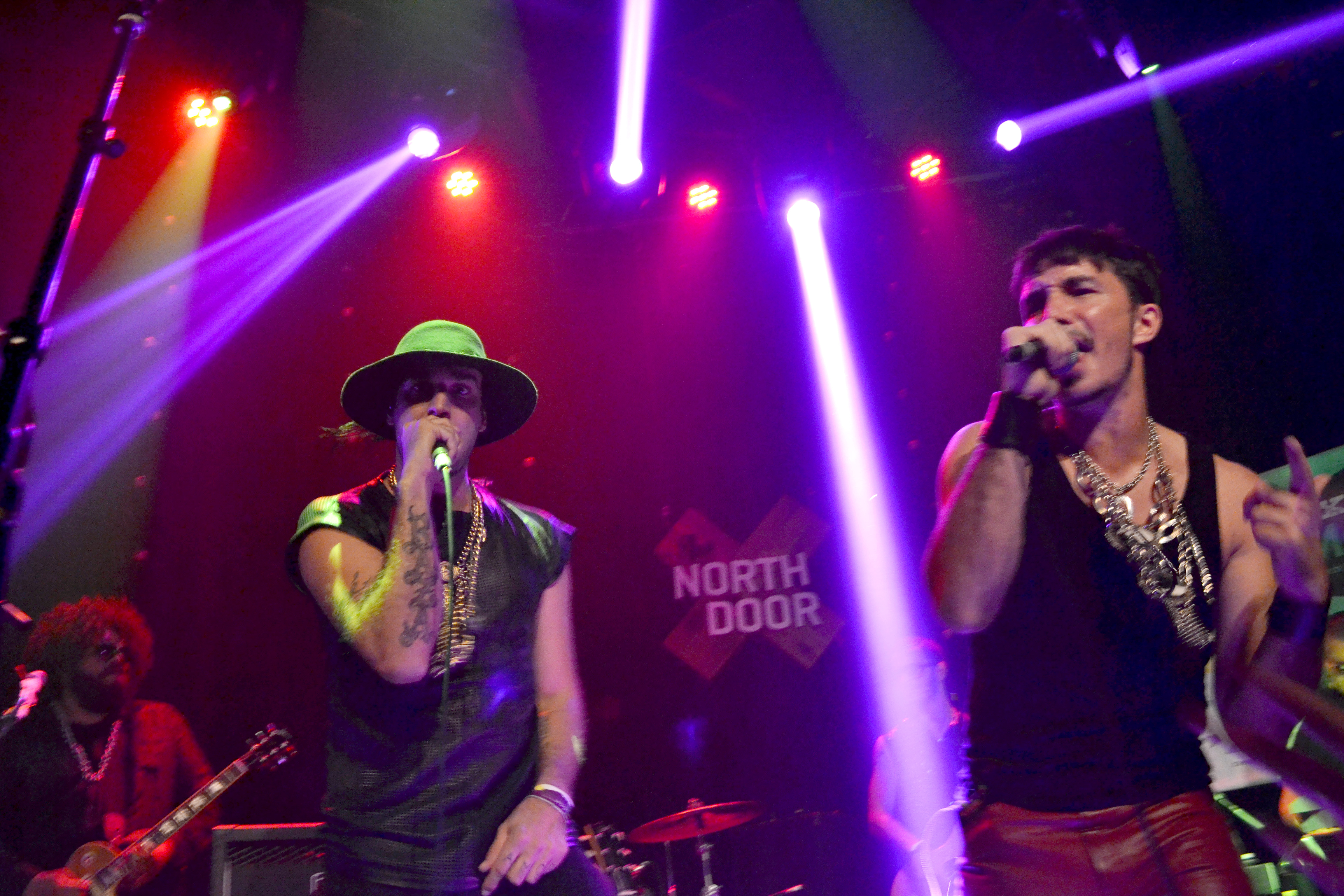 performing at SXSW 2014, illya kuriaki and the valderramas after their reunion